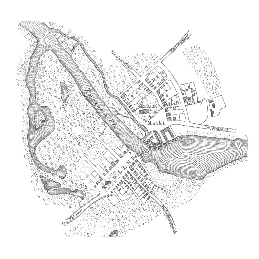 Karl Friedrich Klöden, map Berlin and Cölln c. 1230